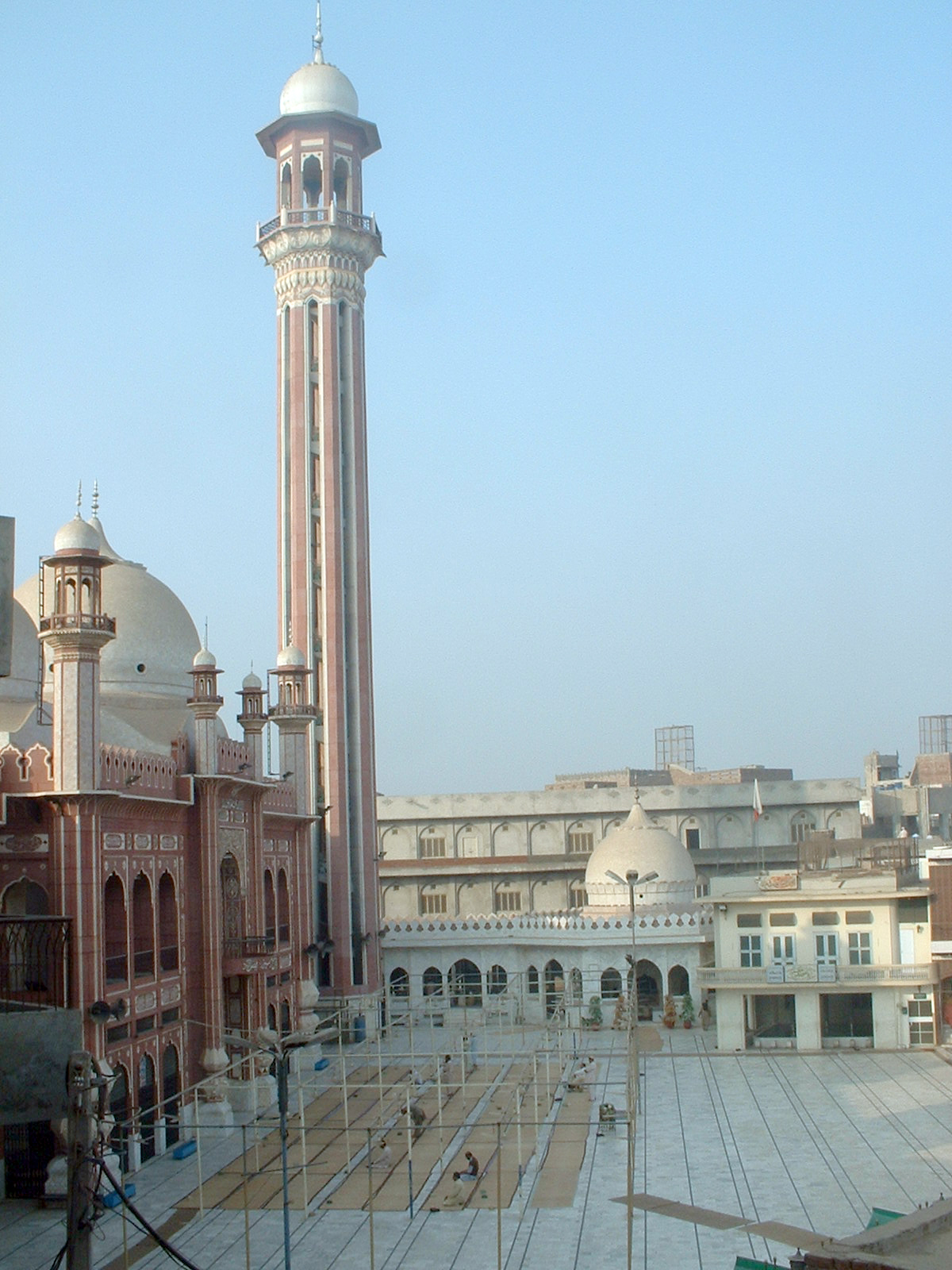 Sunni Rizwi Masjid